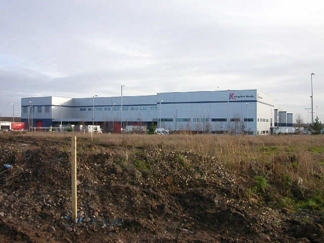 Lutterworth - Magna Park. Development at north end of this estate.